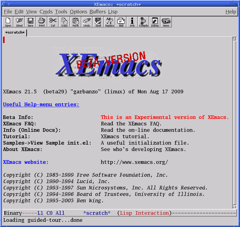 A screenshot of Xemacs 21.5.b29